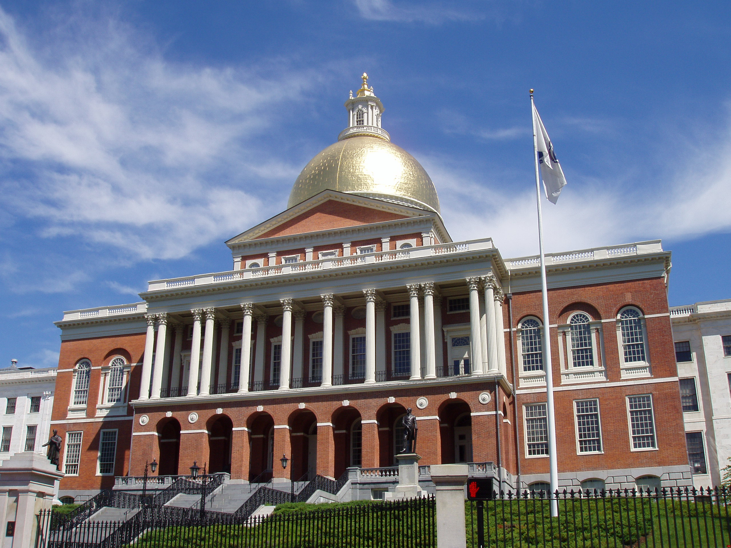 Massachusetts State House, Boston